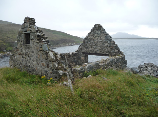 Ruined boathouse on Loch Langais Once the boathouse of nearby Langais (now Langass) Lodge.